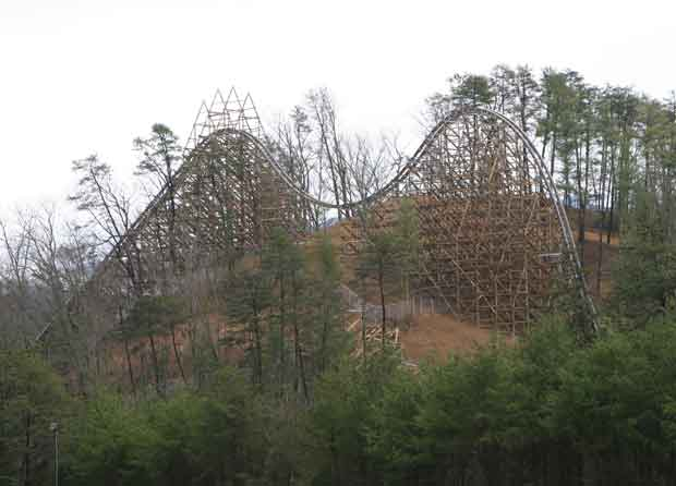 Lightning Rod is located at Dollywood and is the world's fastest wooden roller coaster.